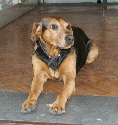 A Maremma Scenthound in Florence, Italy.